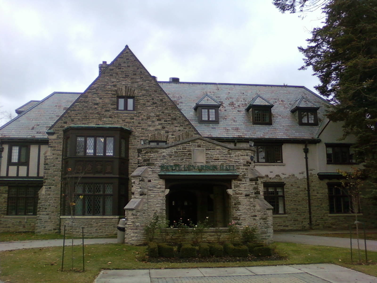 The is an image of Dante Leonardon Hall, the former Silverwood's mansion, at King's University College in London Ontario as it appeared in 2010.